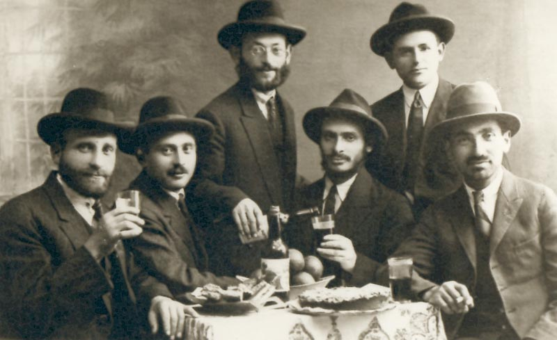 People of Israel